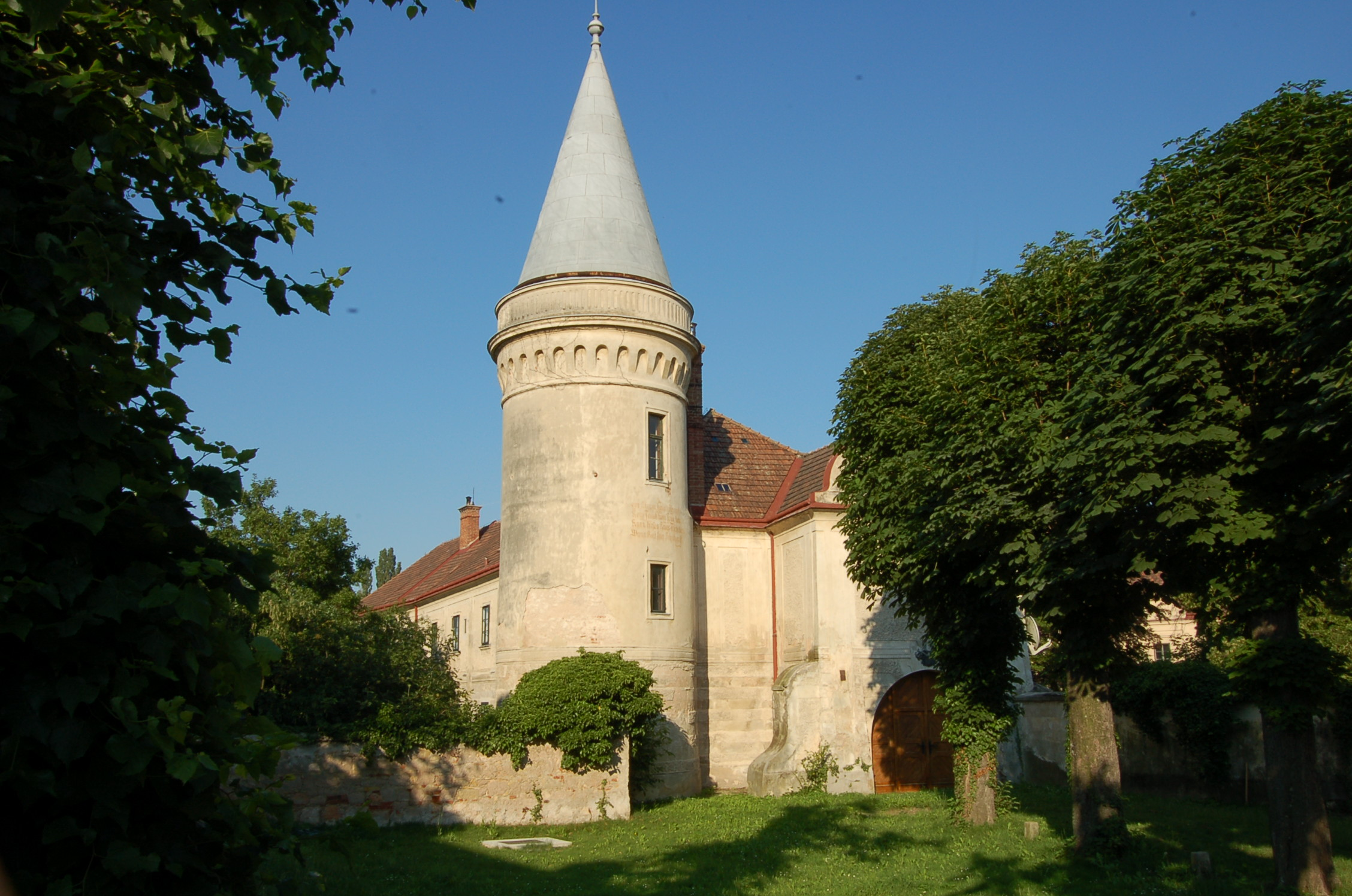 Brunn palace in Brunn an der Schneebergbahn, municipality Bad Fischau-Brunn, Lower Austria